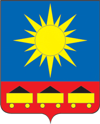 Artyom (Primorsky kray), coat of arms